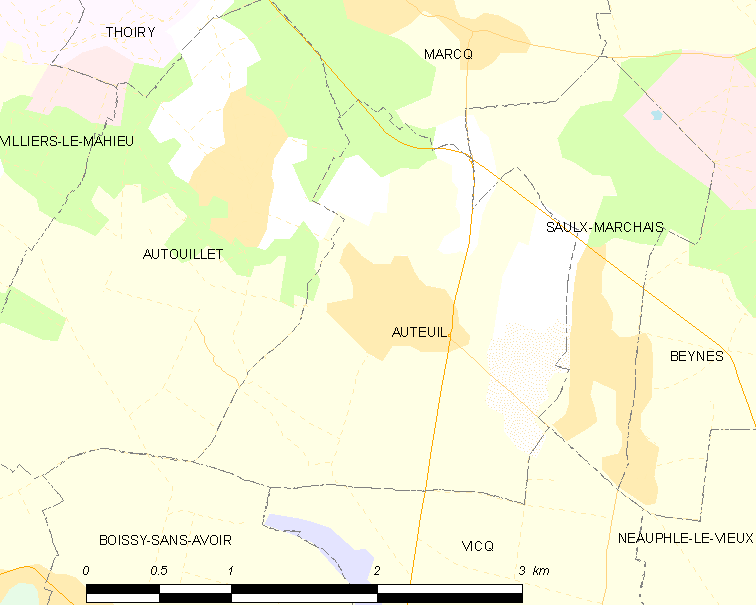 Map of French municipality Auteuil